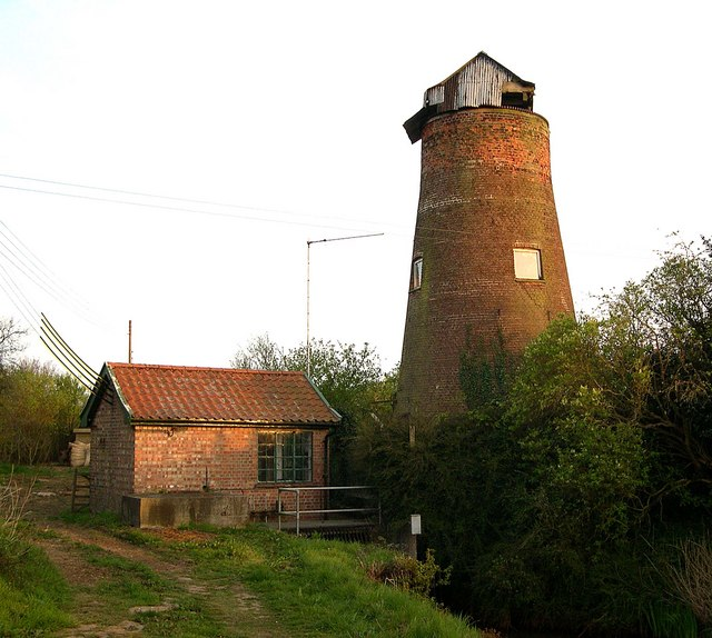 Stubb Drainage Windmill near Hickling in the county of Norfolk, England. Also known as Nudd's Mill